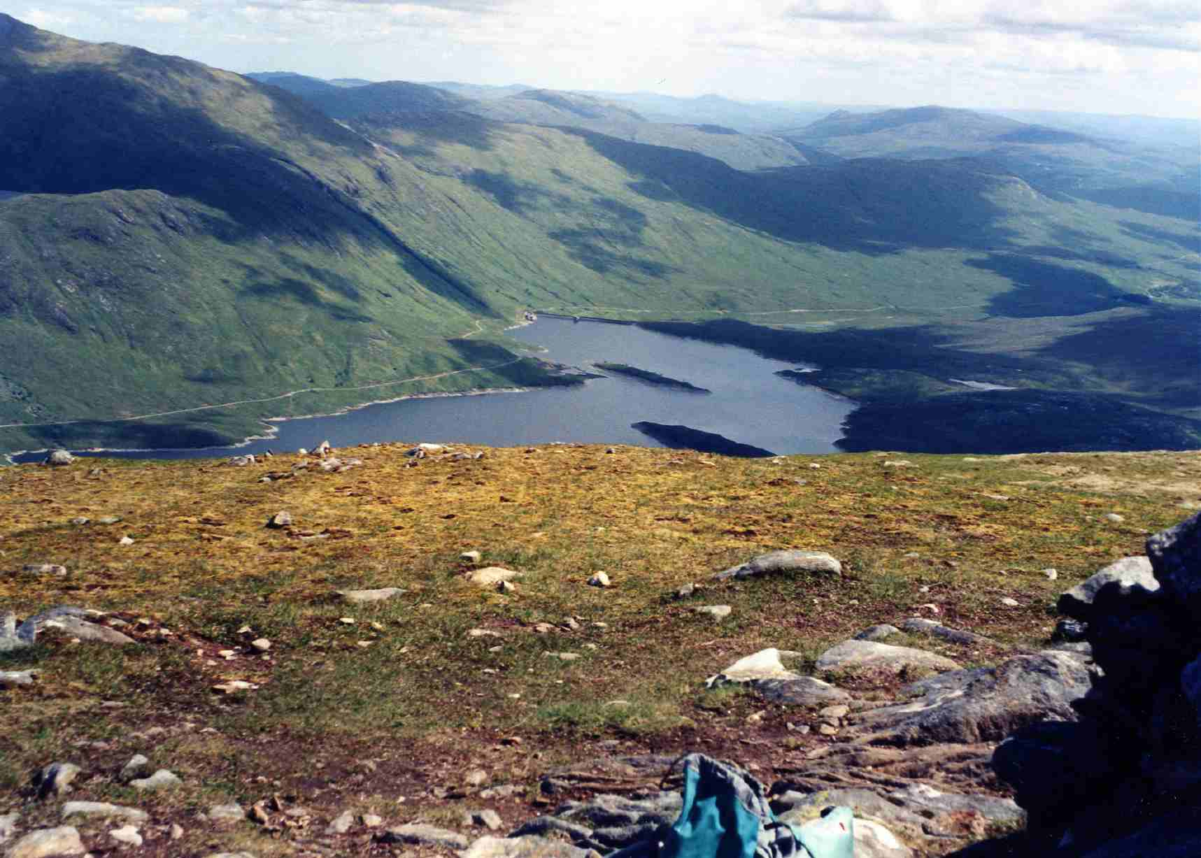 Personal picture taken by Mick Knapton